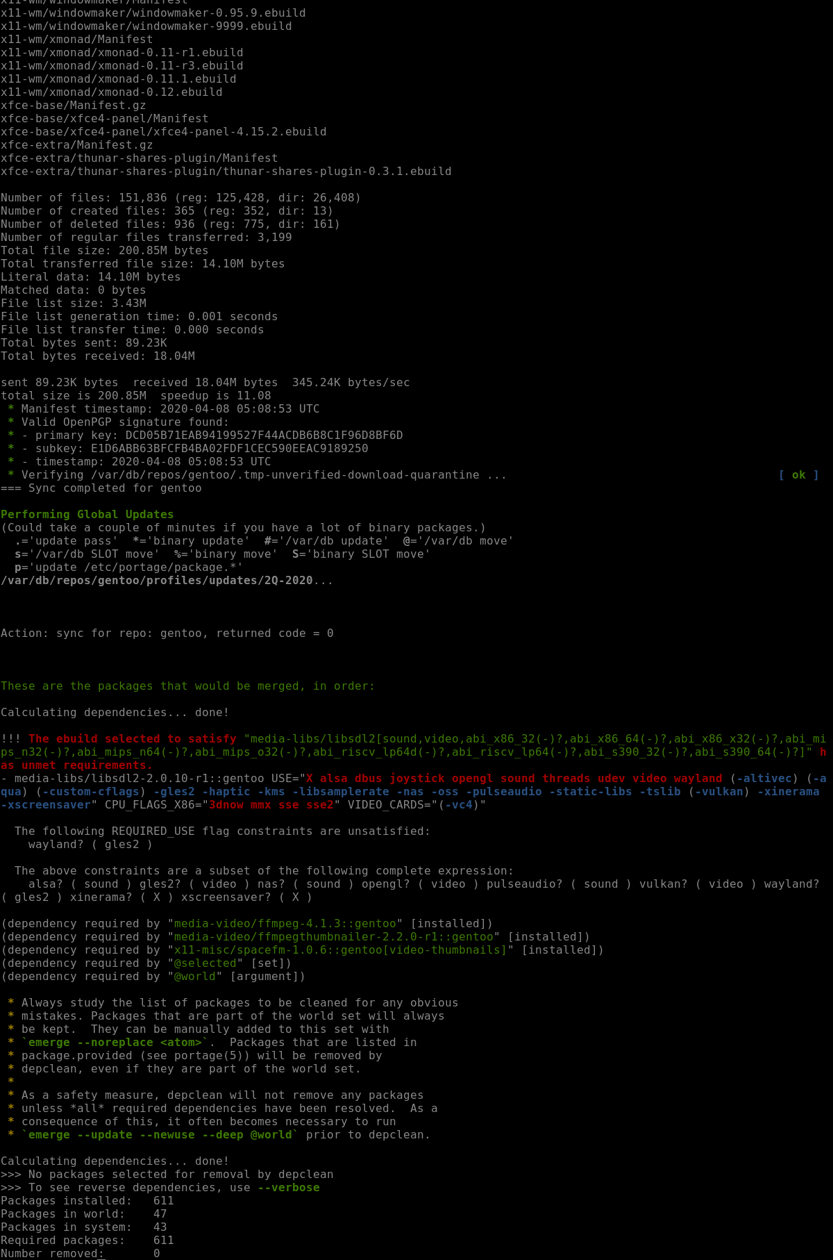 Sometimes user need to resolve dependencies manually.